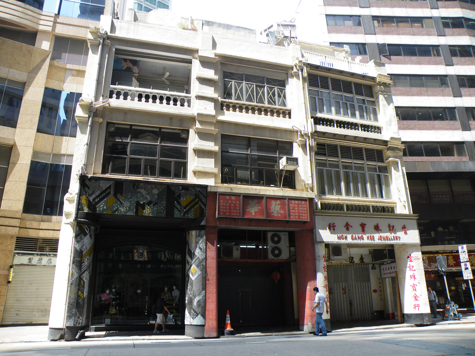 No. 172-176 Queen's Road Central, Hong Kong